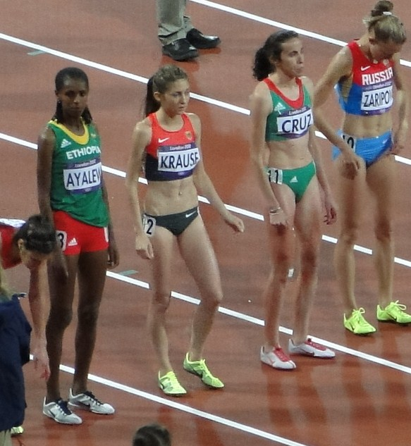 Lining up for the start of the women's 3000m steeplechase at the 2012 London Olympics, Hiwot Ayalew, Gesa Felicitas Krause, Clarisse Cruz, Yuliya Zaripova